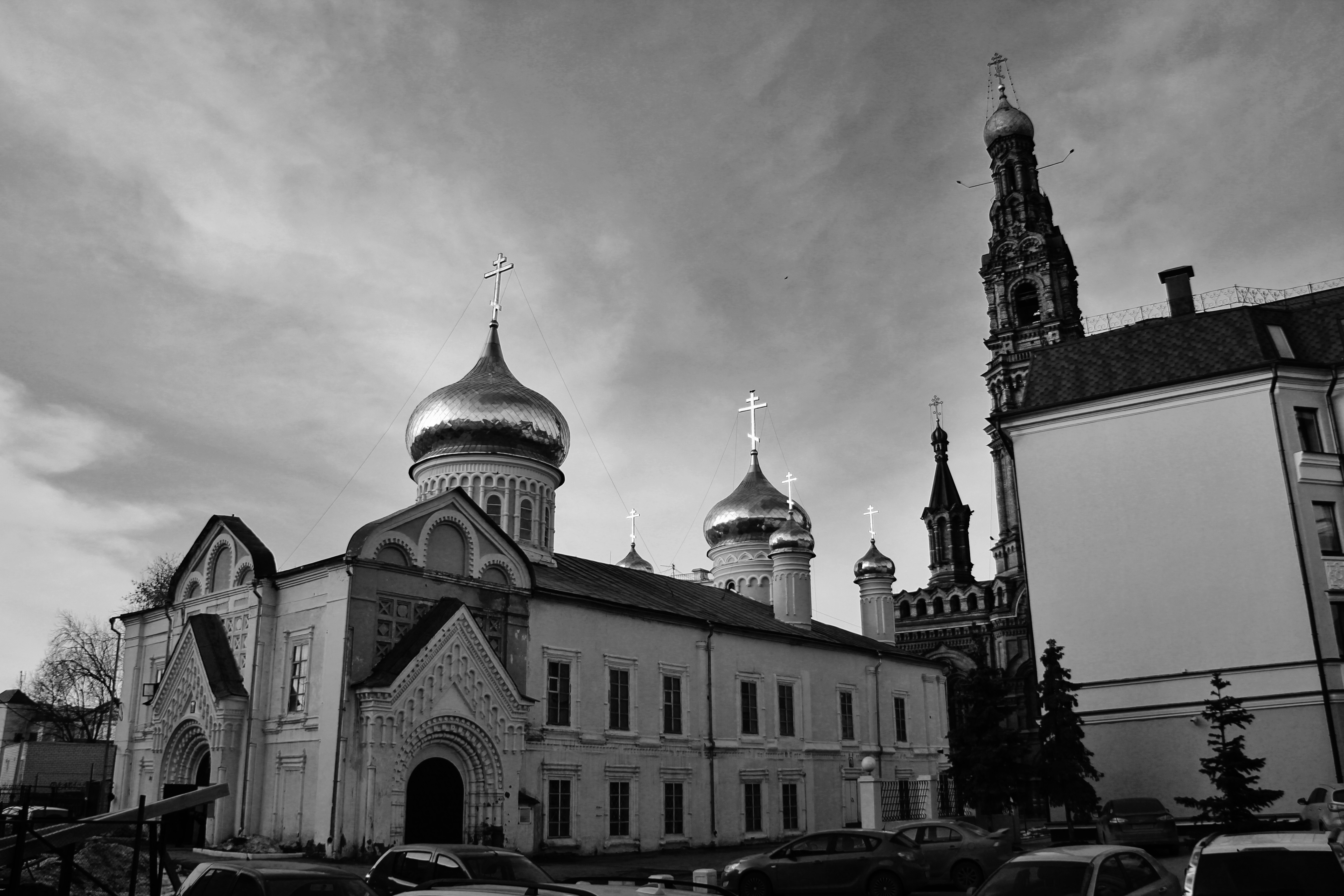 Вид со двора.